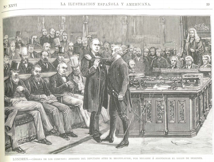 Brandlaugh arrest